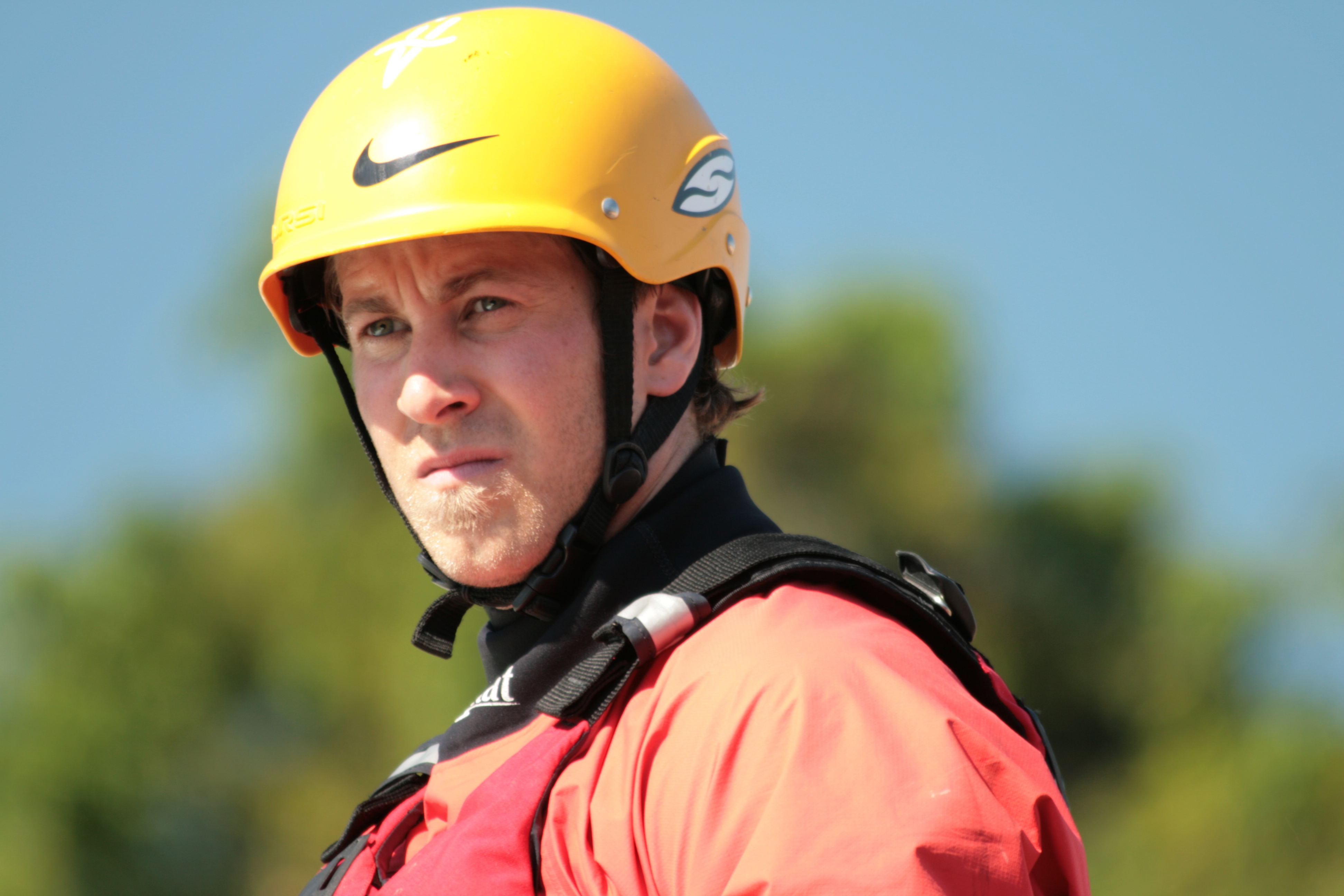 Brad Ludden filming his sweetspot for Nike ACG on the 4,000 Islands section of the Mekong river in Laos